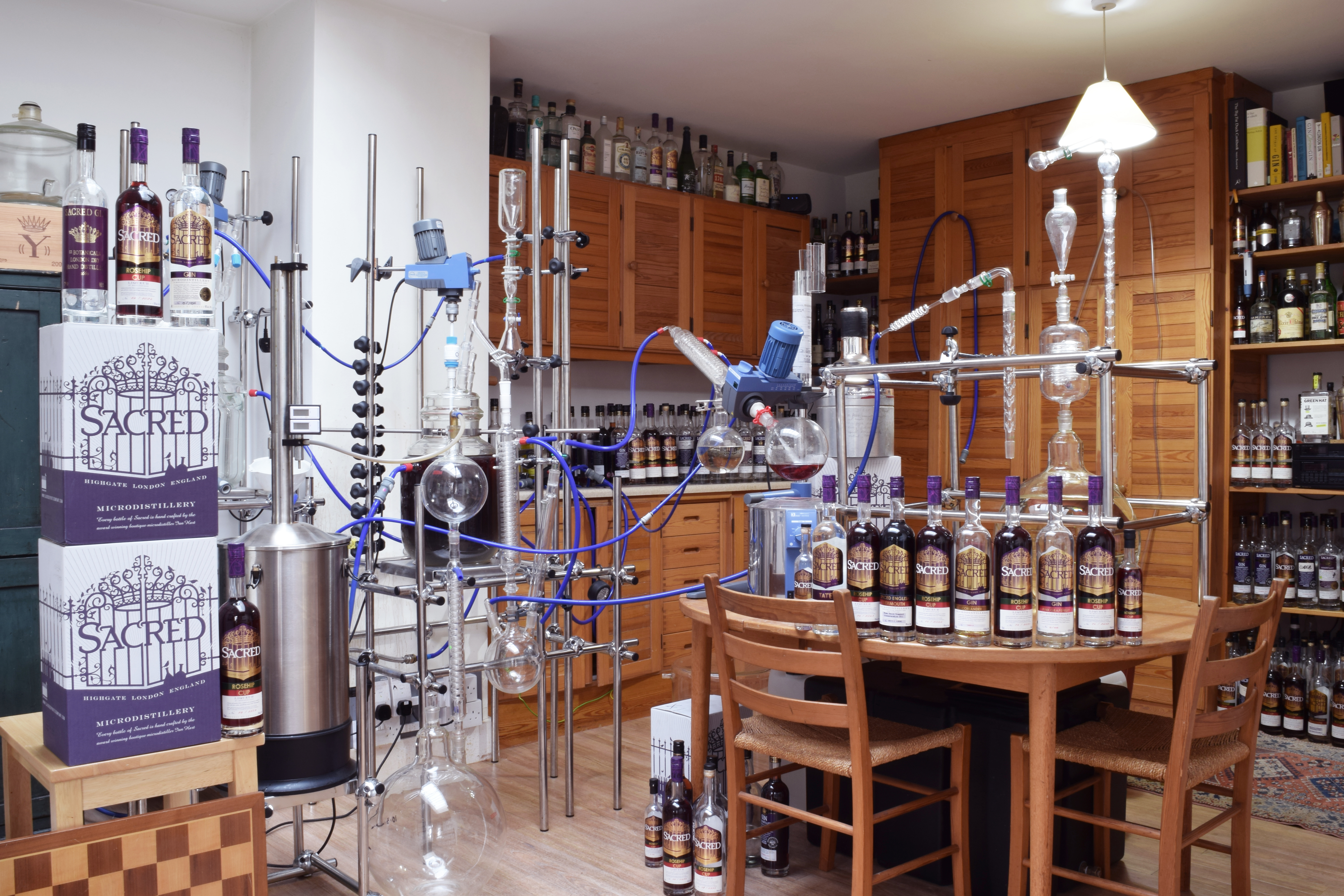 The Sacred Distillery, in Ian Hart's home in Highgate